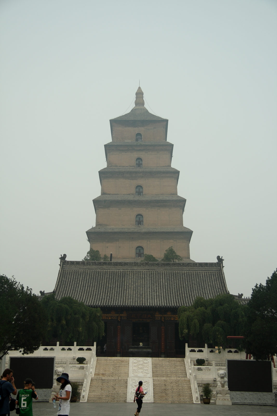 Giant Wild Goose Pagoda in xi'an